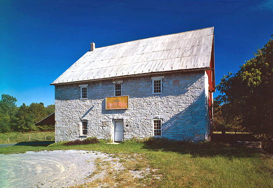 Bunker Hill Mill, Berkeley County, West Virginia, USA